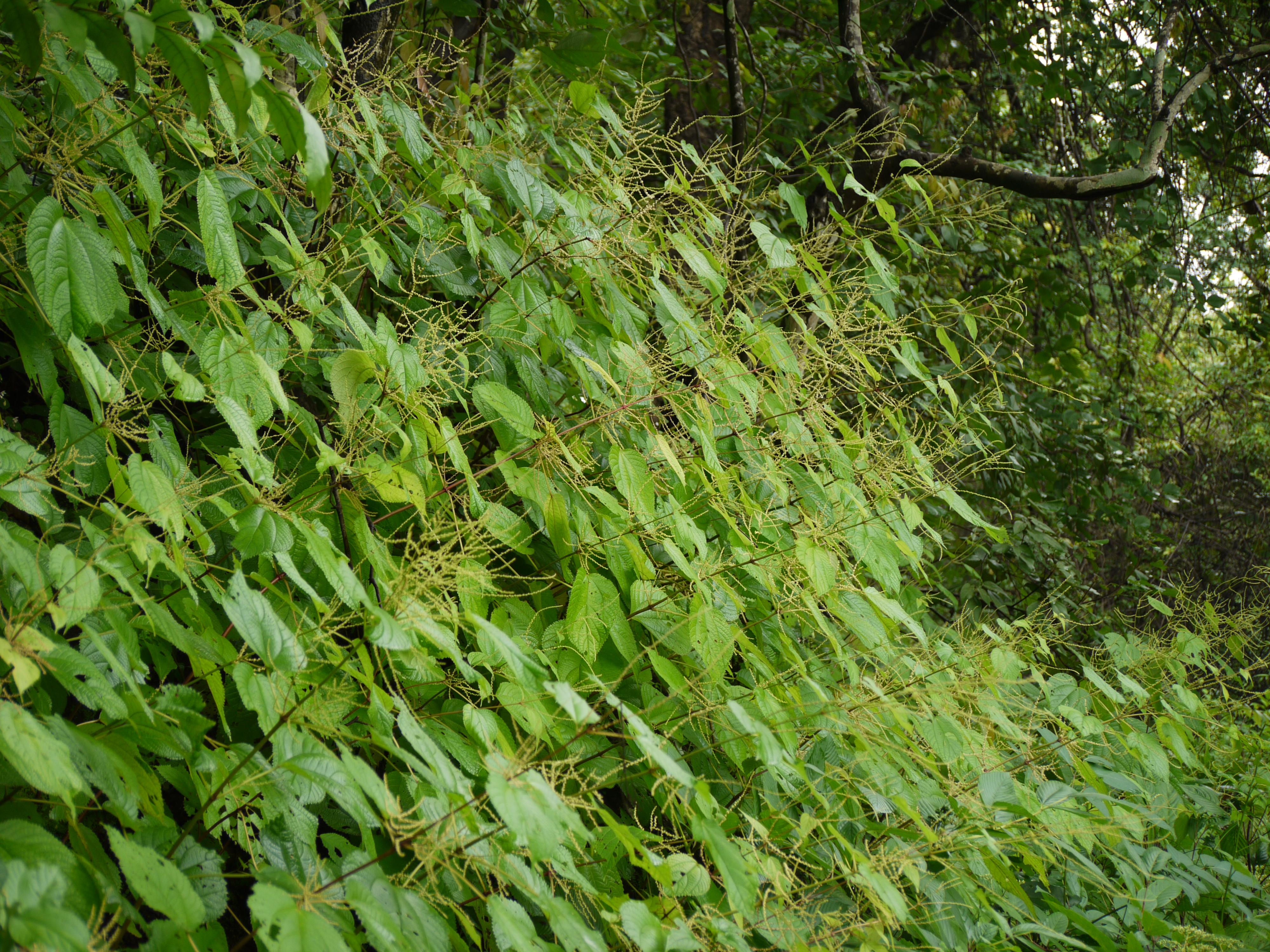 Urticaceae (nettle family) » Boehmeria macrophylla boh-MEER-ee-uh -- named for George Rudolf Boehmer, professor of botany and anatomy mak-roh-FIL-uh -- meaning, big leaved commonly known as: African jolanettle, false nettle, wild ramie •